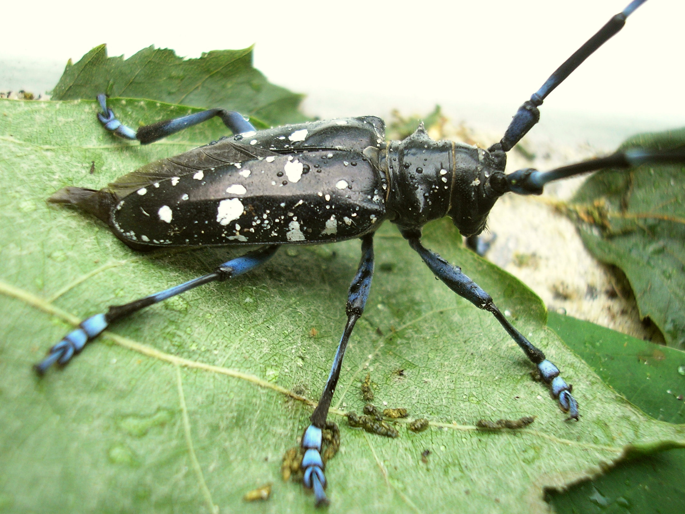 Invasive longhorn beetle species Anoplophora glabripennis Location: Roombeek, Enschede, Netherlands Keywords: Cerambycidae, Lamiinae, Lamiini, Cerosterna, Asian, Invasive, Pest